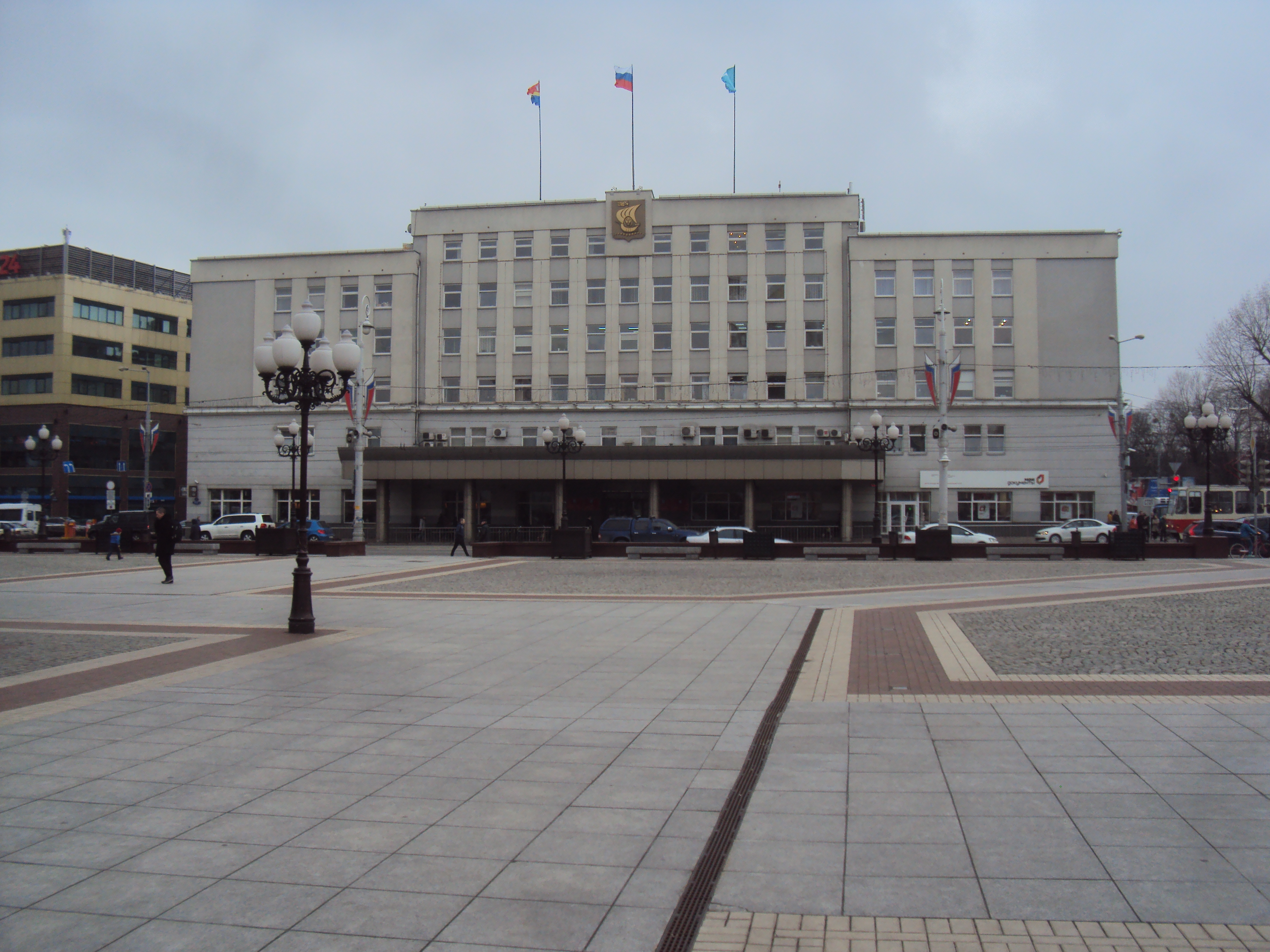 Building City Hall It looks like an old building no longer exists.